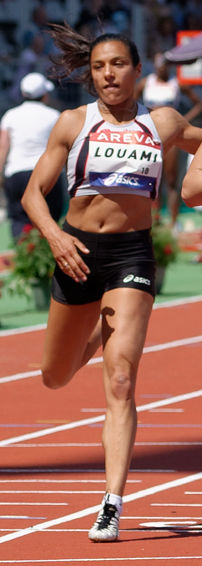 Myriam Soumaré wins the first series of the women's 200-metre race in 22″88 during the French Athletics Championships 2013 at Stade Charléty in Paris, 14 July 2013.